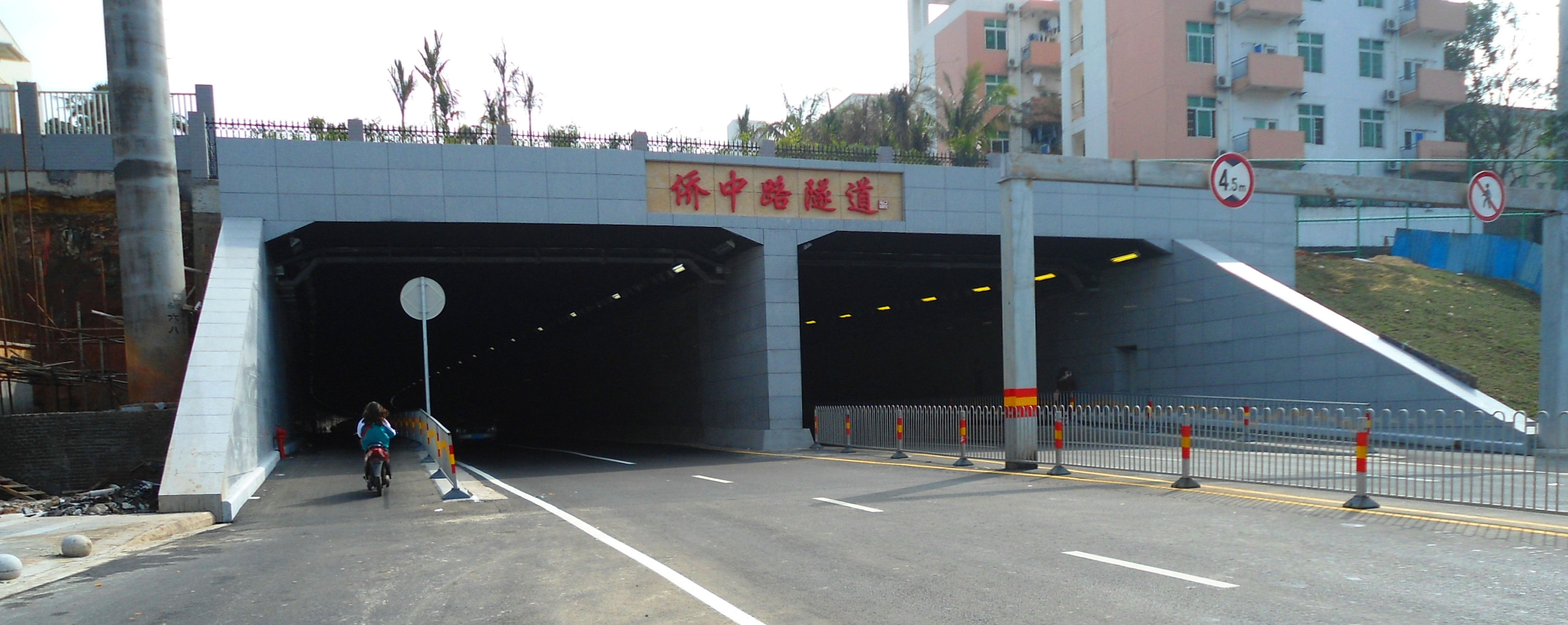 South entrance of Qiaozhonglu Tunnel at the foot of Yusha Road, in Haikou, Hainan Province, People's Republic of China.